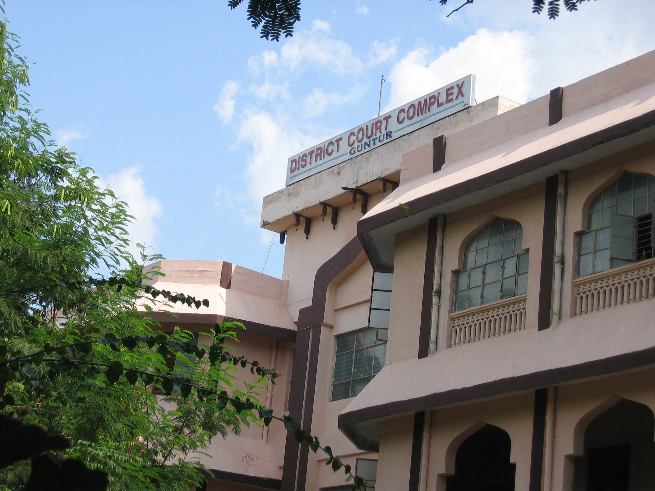 The Main district court, used to be the High court, at Guntur City, India.